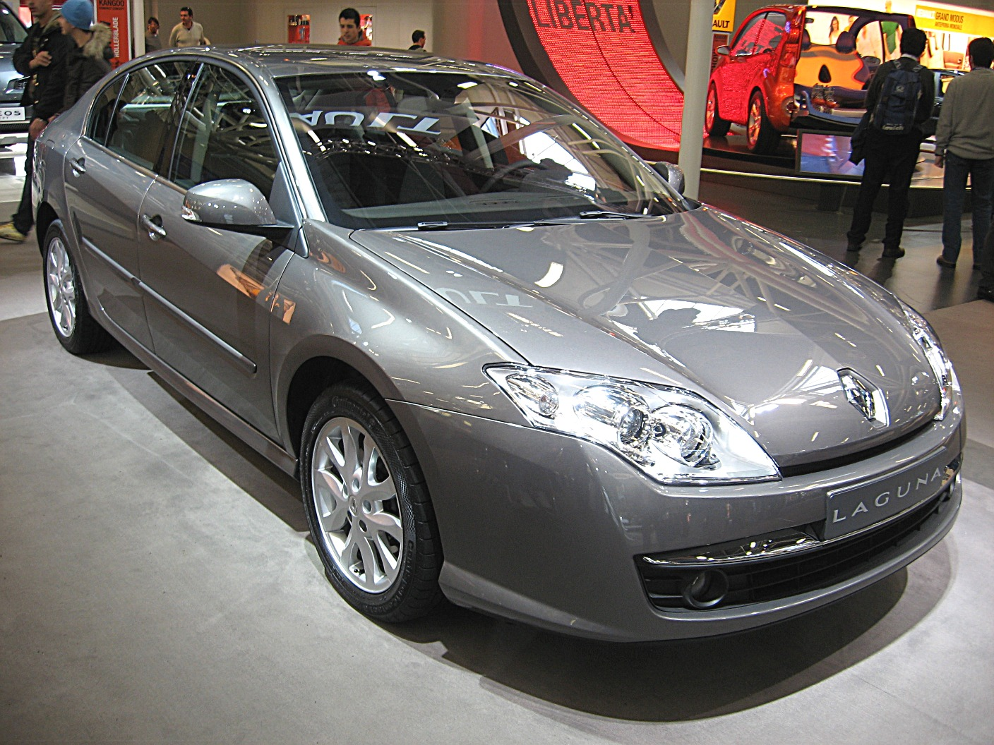 Subject: Renault Laguna III Author:Luc106 Date:December 13th, 2007 Event:Motor Show Bologna 2007 Place/Country: Bologna, Italy I release all rights in the public domain.